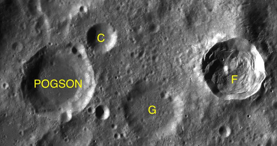 Part of the chart LAC-117 used for the presentation